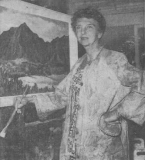 British philanthropist, playwright and artist, Nesta Obermer, 1957